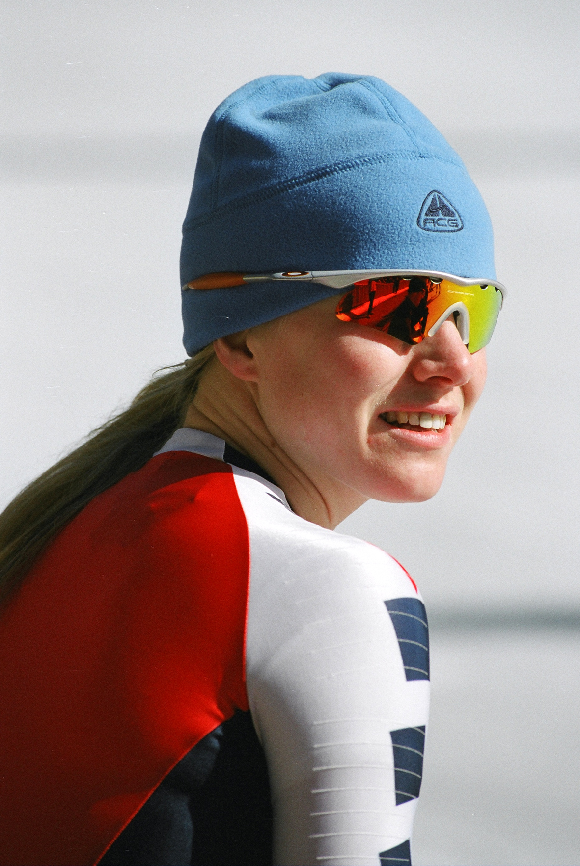 Tonny de Jong is a former speedskater from The Netherlands